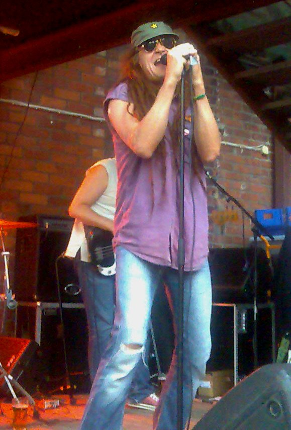 Picture of Pelle Miljoona on Falls Pub / Restaurant on Tammerkosken sillalla event on 4th of July 2007